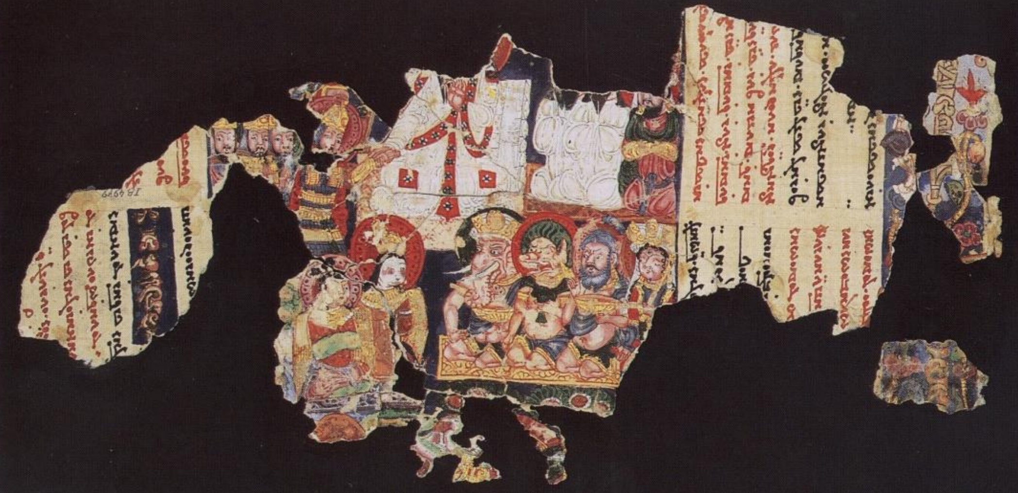 Fragment of a Turpan Manichaean Illuminated Codex depicting a church ceremony; SMPK, Museum für Indische Kunst (Berlin), MIK III 4979 recto.